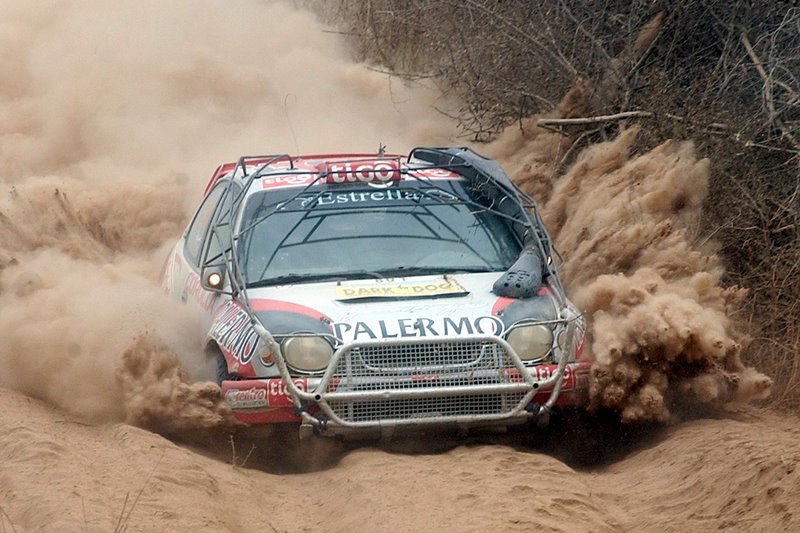 Francisco "pancho" Gorostiaga en el Transchaco Rally 2005 con su toyota corolla wrc